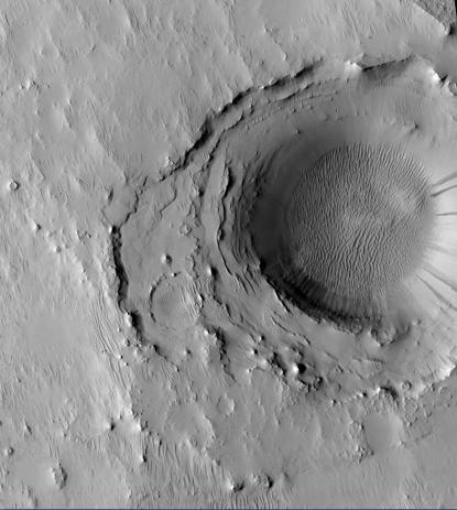 Crater on the floor of Cassini crater, as seen by hirise. The location is 24 degrees north latitude and 327.9 degrees west longitude. Image was taken by the Mars Reconnaissance Orbiter's HiRISE. The HiRISE camera was built by Ball Aerospace and Technology orporation and is operated by the University of Arizona. Image courtesy NASA/JPL/University of Arizona.